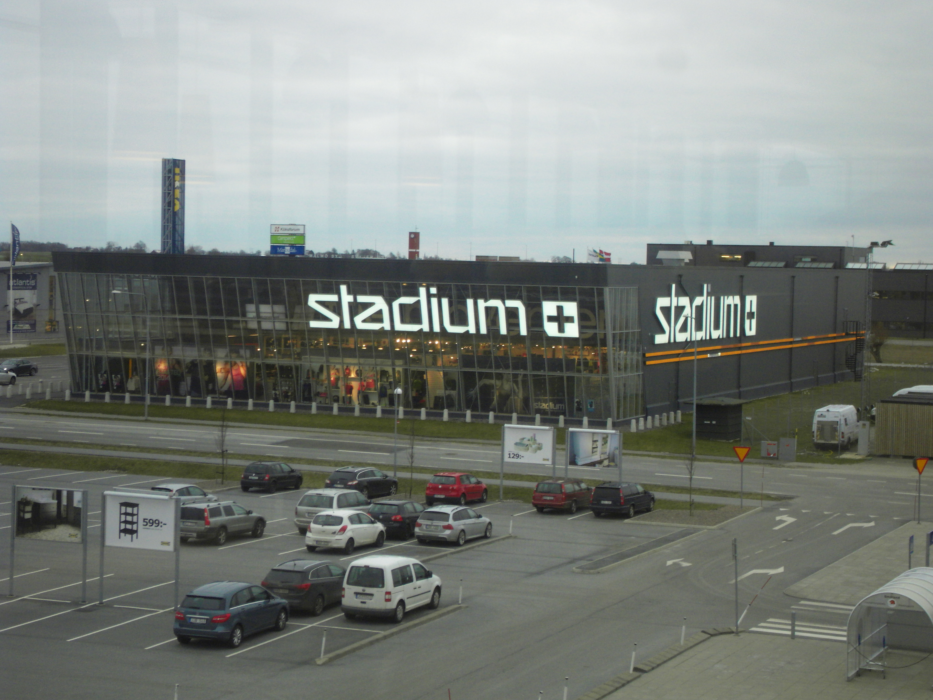 A Stadium store in the neighbourhood Svågertorp in the city of Malmo. The picture is photographed behind a window at a restaurant in the close IKEA store.